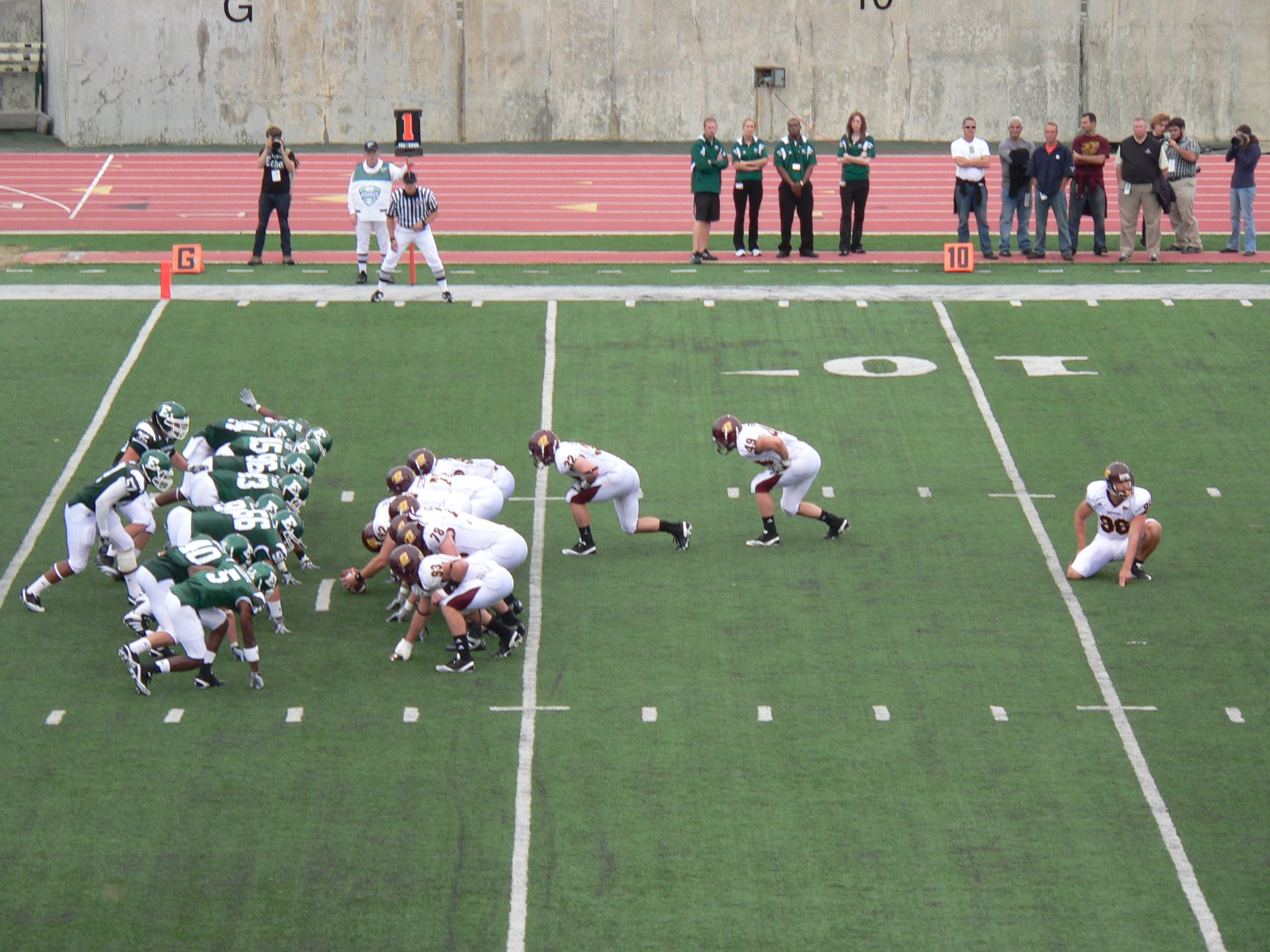 Central Michigan lines up for a PAT against EMU.